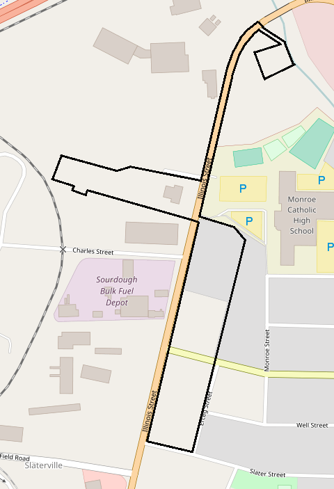 Map showing the boundaries of the Illinois Street Historic District in Fairbanks, Alaska, United States. The historic district is listed on the National Register of Historic Places. Boundaries are derived from the map attached to the district's National Register nomination form.